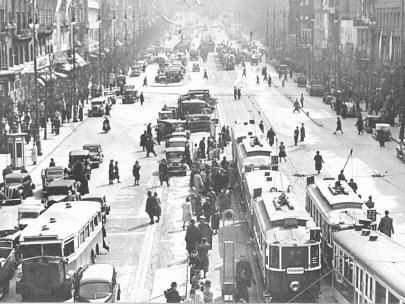 Urban transport in Prague